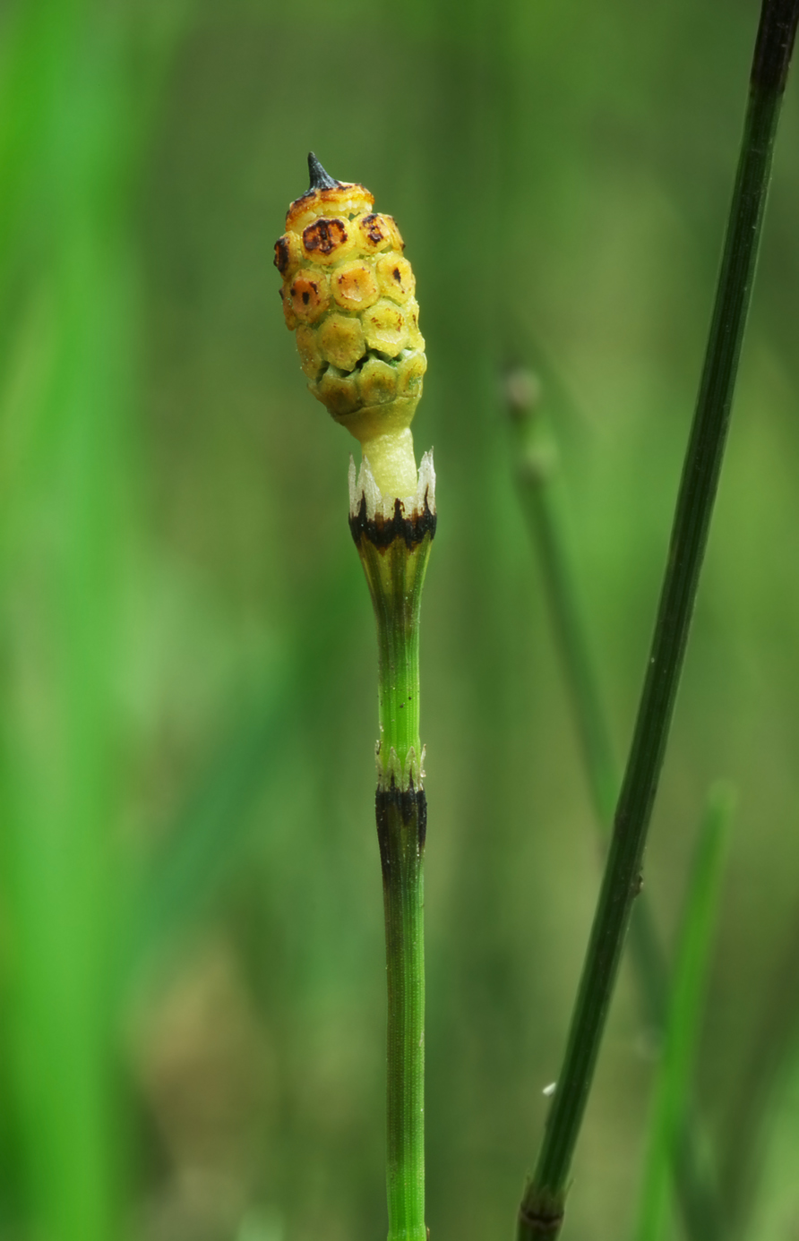 Equisetum variegatum - fertile stem